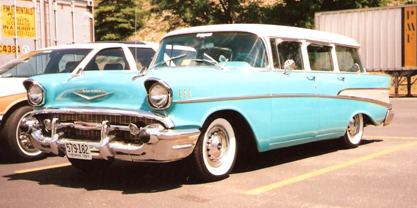 1957 Chevrolet Bel Air Townsman station wagon I photographed in Pittsburgh, Pennsylvania in June 2000.